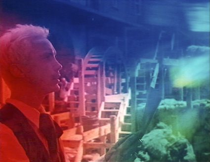 Narcissus watches the world through a prism